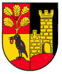 Coat of arms of Erlenbach bei Dahn